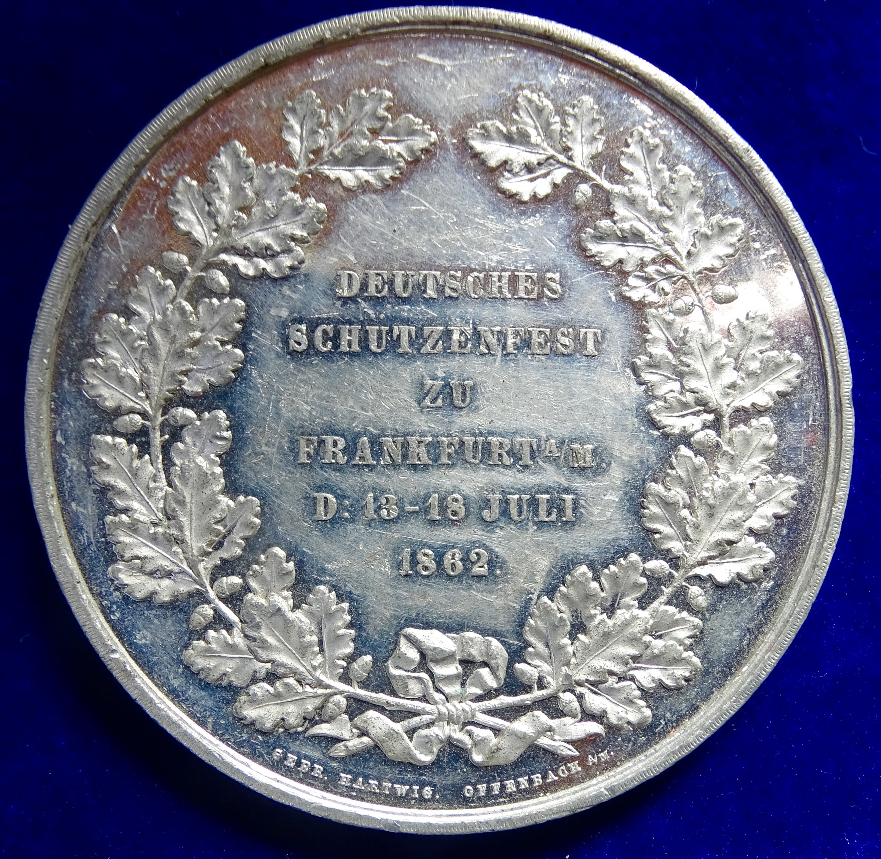 Pewter medallion d. = 55 mm. 1 line below flagged monument: "Gaben-Tempel"/ 6 lines in wreath: "DEUTSCHES SCHÜTZENFEST ZU FRANKFURT A/M. D: 13-18 JULI 1862." J.+F. 1303. Medallists: Gebrüder Hartwig, Offenbach am Main Condition: Nice VERY FINE.